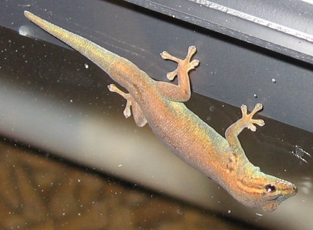 Female Lygodactylus williamsi (in captivity)